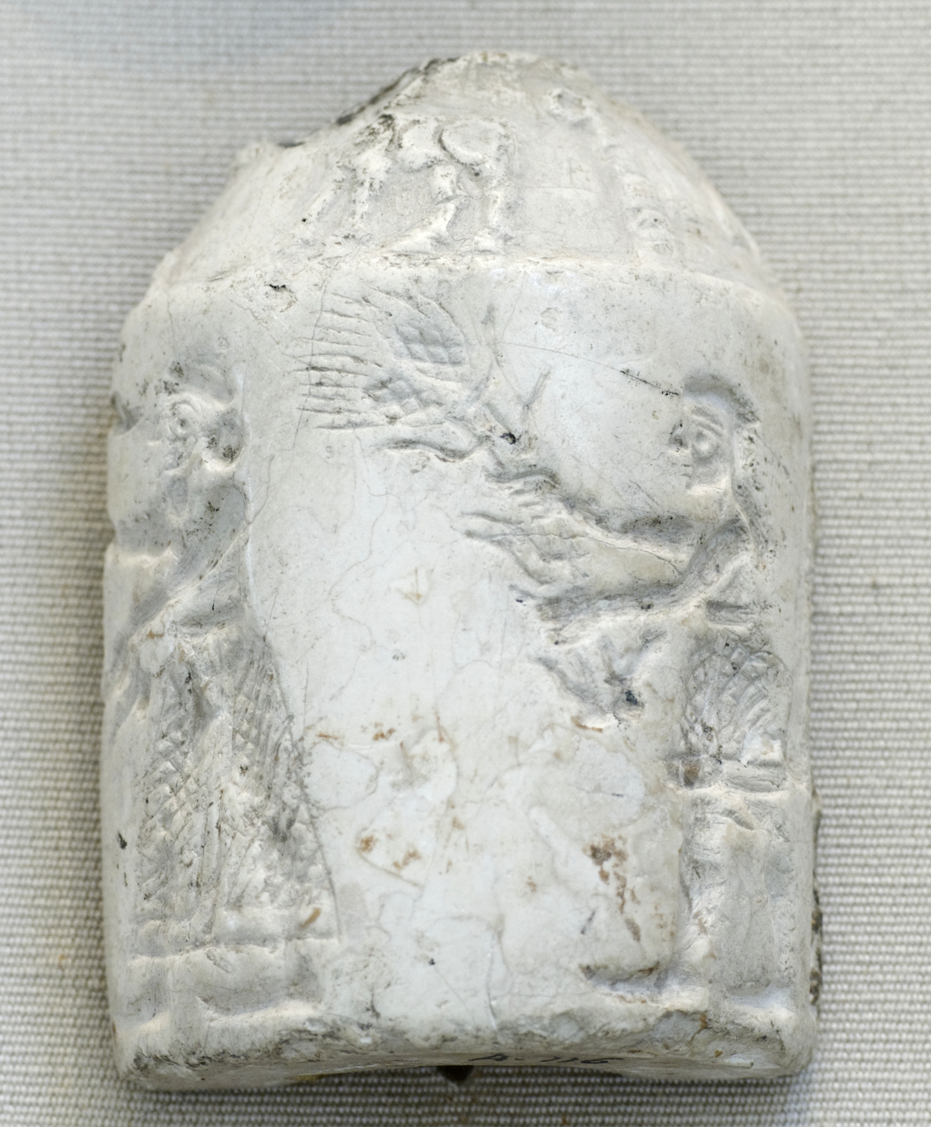 Cylinder seal: the king-priest and his acolyte feeding the sacred herd. White limestone, Uruk period, ca. 3200 BC.